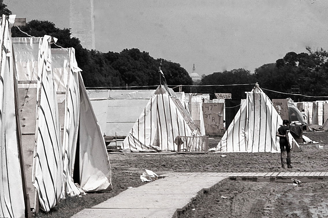 In May of 1968 I took this photo of Resurrection City. Less than a month after MLK's assassination, began "...the construction of Resurrection City on the Mall in Washington, D.C. Poor demonstrators traveled by mule train and bus from across the country to take up residence in the city and join SCLC in demanding food stamps, jobs and job training, and housing."